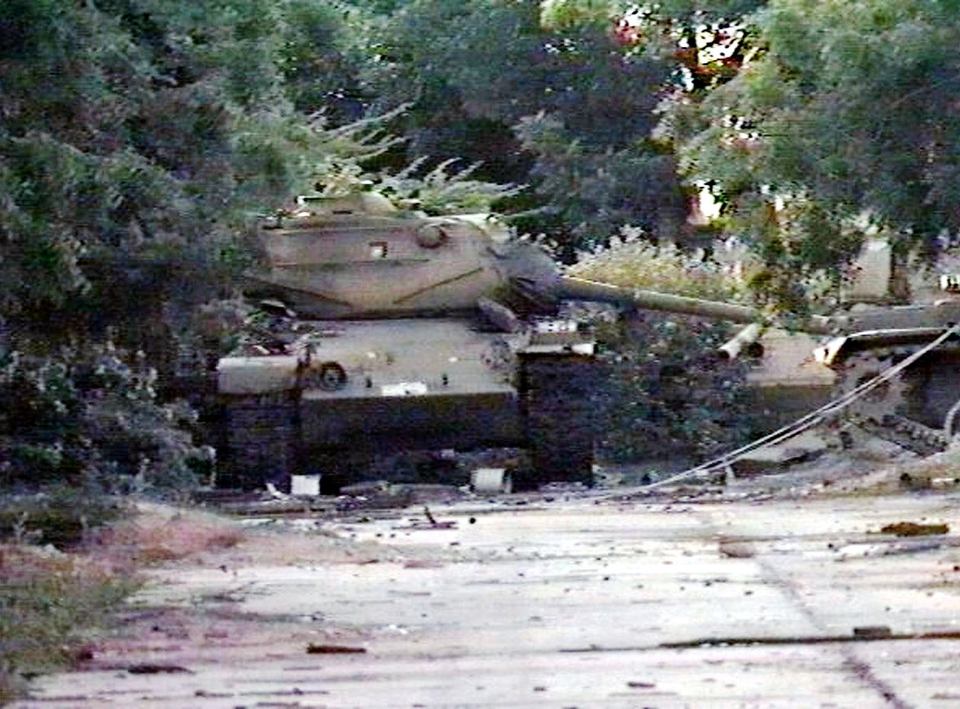 Three abandoned Somali (US Manufactured) M47 Tanks sit destroyed amongst some trees near a warehouse. The US Army's 10th Mountain Division (not shown) stumbled across the abandoned tank. This mission is in support of Operation Restore Hope.